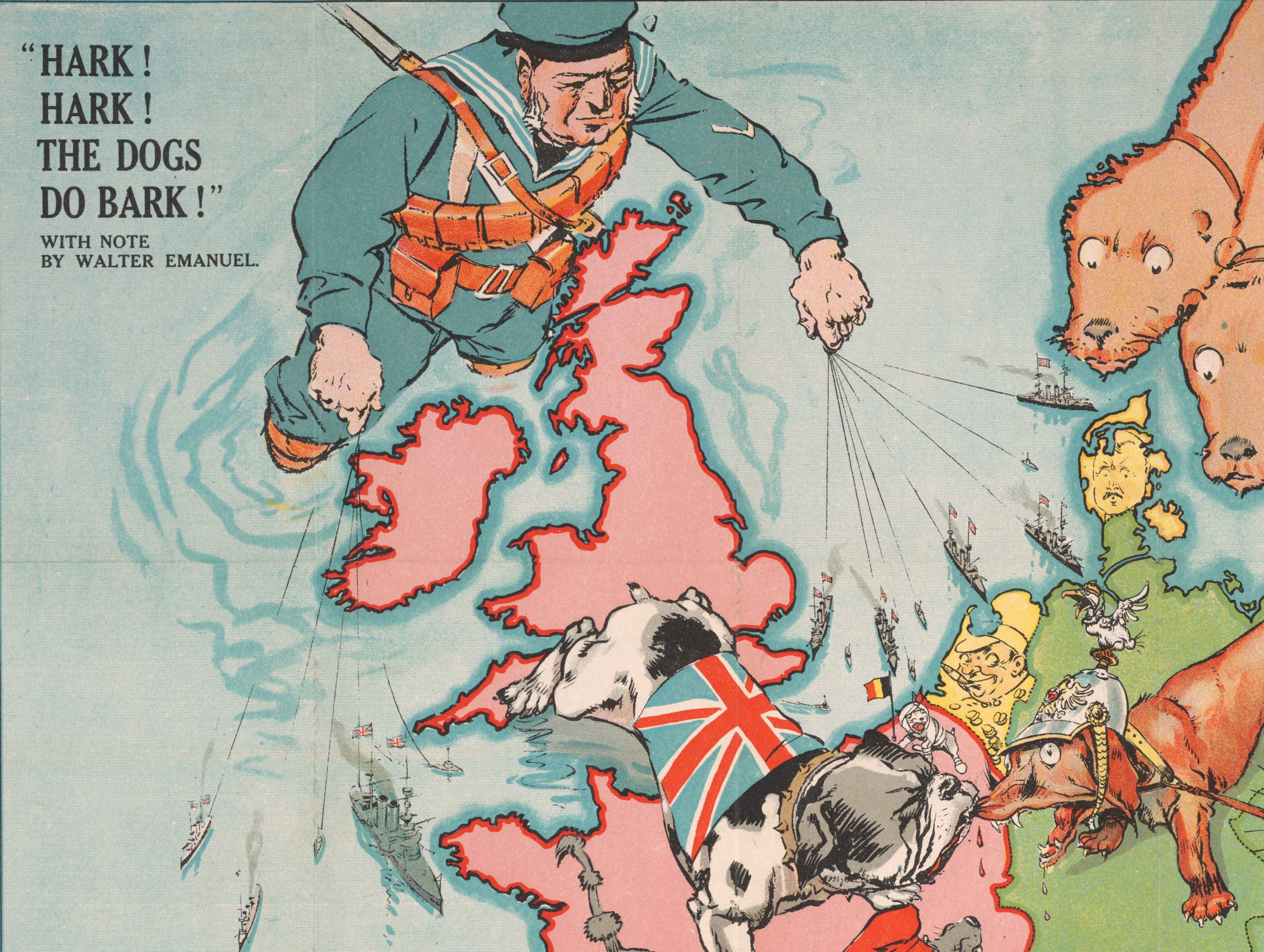 Detail of a 1914 political map of Europe, representing various countries with various breeds of dogs.